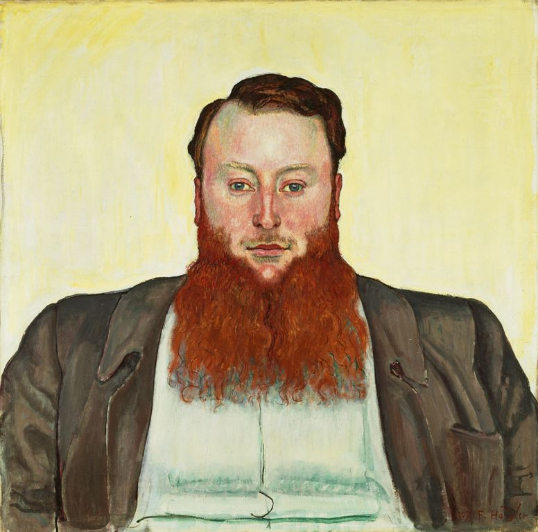 Helen Birch Bartlett Memorial Collection, 1926.212.